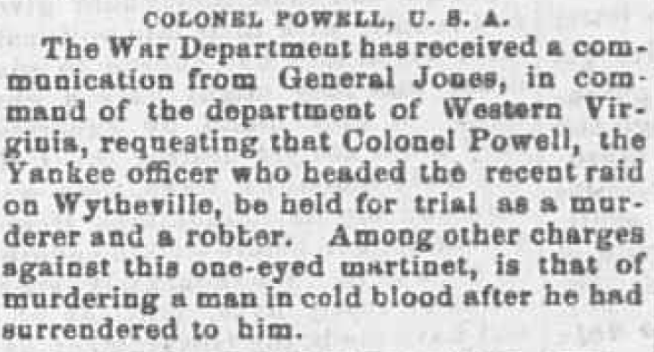 This is a short newspaper article (Wheeling Daily Intelligencer) about Colonel William H. Powell of the 2nd West Virginia Cavalry (a.k.a. 2nd Loyal Virginia Cavalry). The article is from the southern point of view, and portrays Powell negatively.